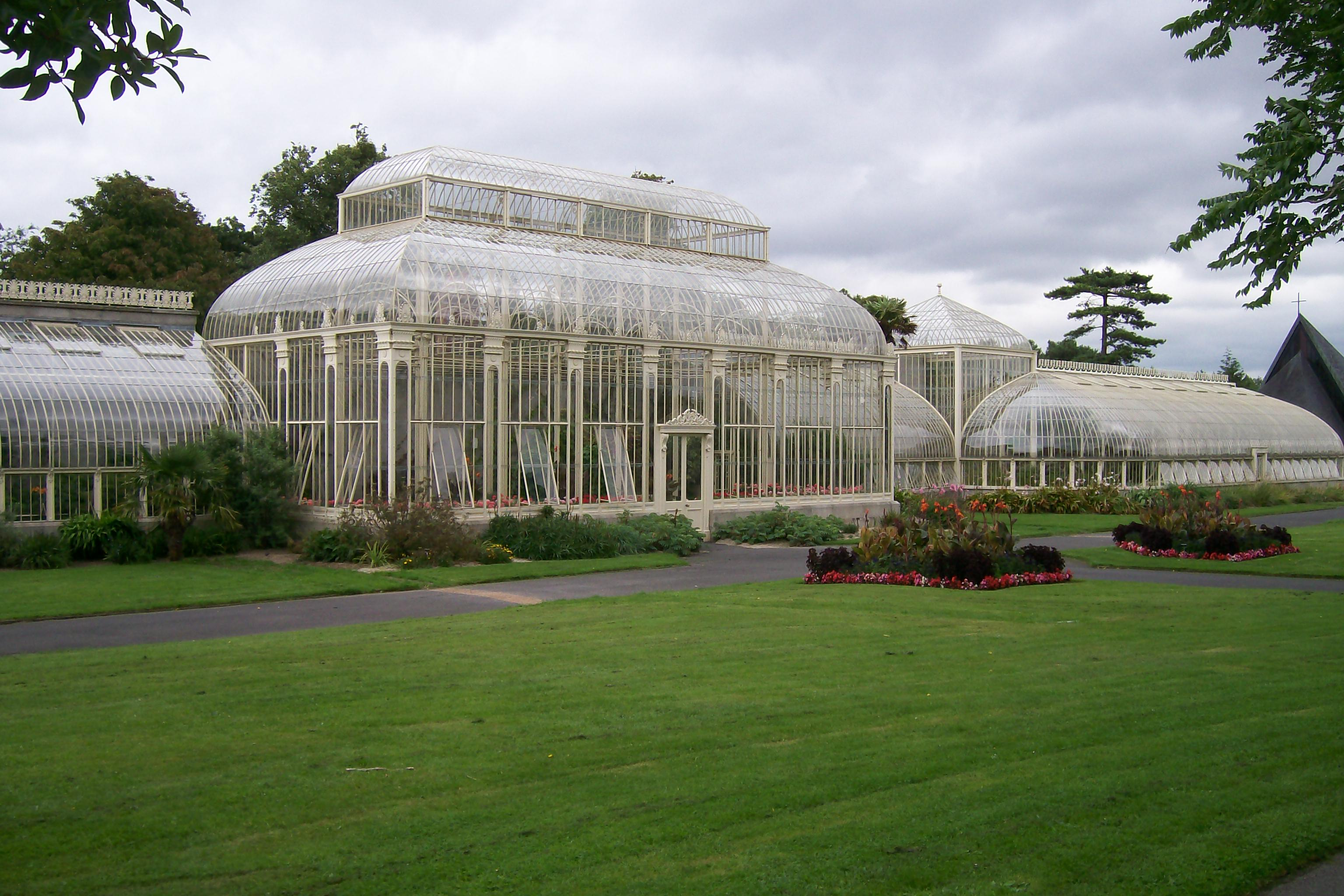 Author's own picture